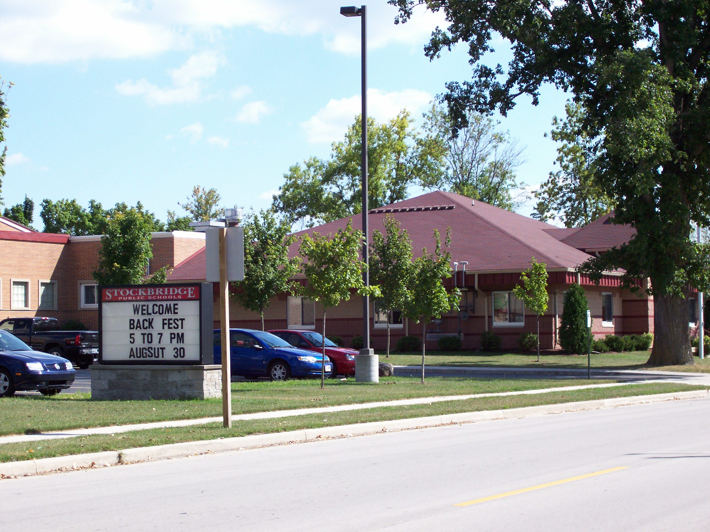 A picture of the Stockbridge High School in Stockbridge, Wisconsin. This image was taken August 29, 2006 by User:Royalbroil.